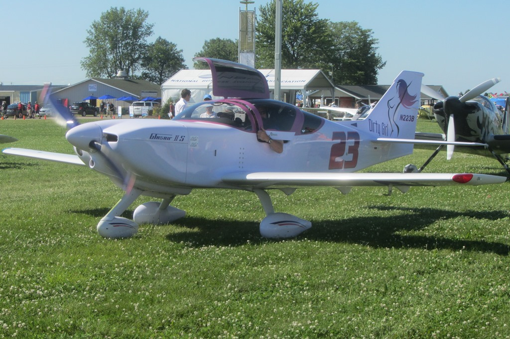 Glasair IIS